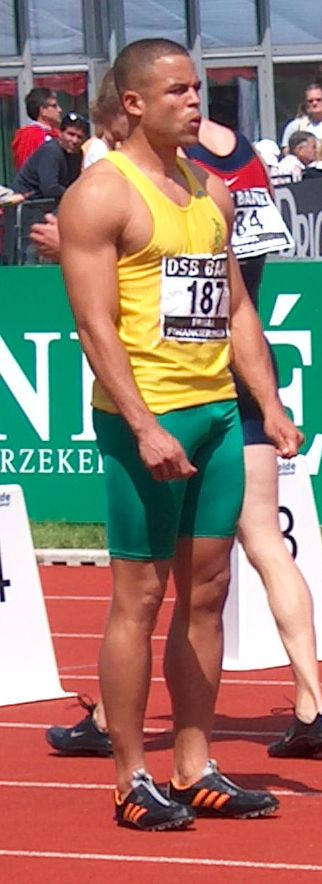 Caimin Douglas at dutch championships 2007, Amsterdam, start 100m